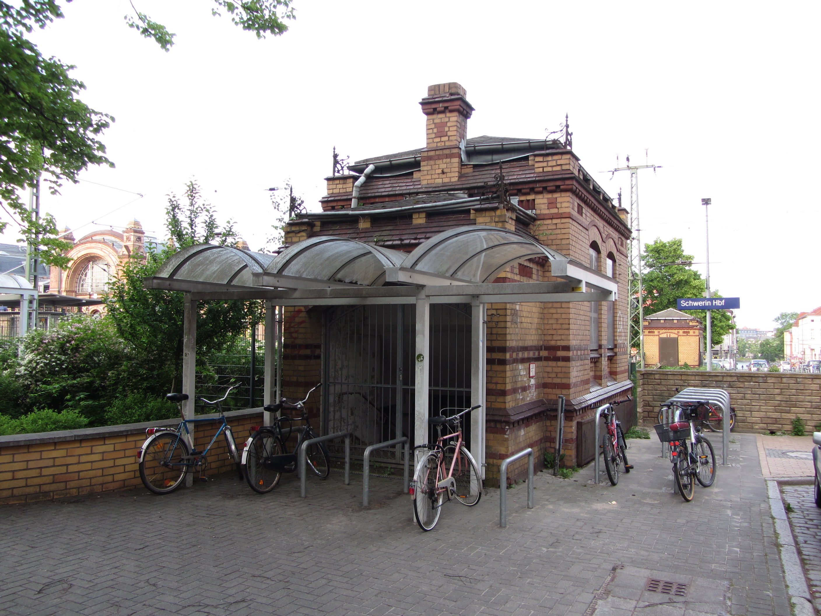 Old tunnel at train station in Schwerin, Mecklenburg-Vorpommern, Germany